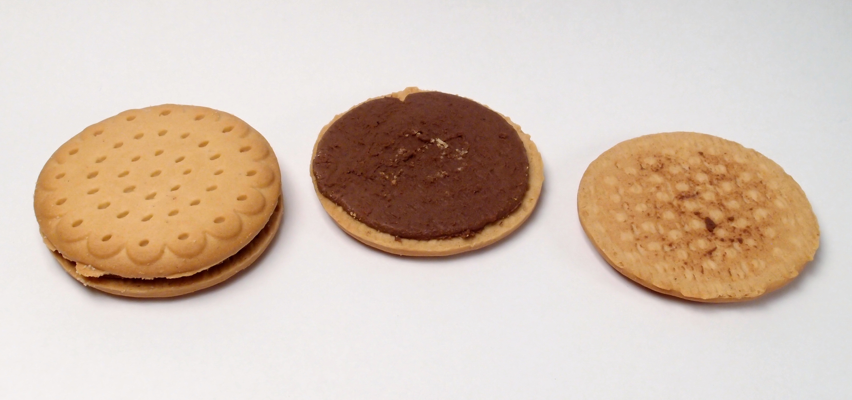 Two sandwich cookies, one intact and one split open to make the filling visible.